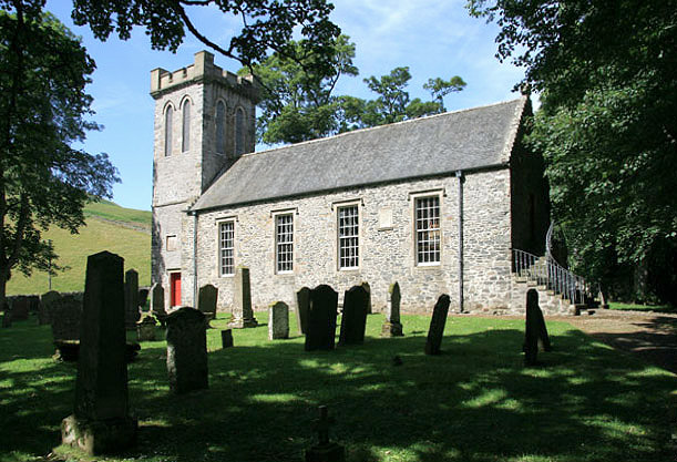 Ettrick Parish Church A Church of Scotland kirk dating back to 1619 but rebuilt in its present form with a square tower in 1824. The graveyard contains some interesting memorials, including those of James Hogg the Ettrick Shepherd and Tibbie Shiel.